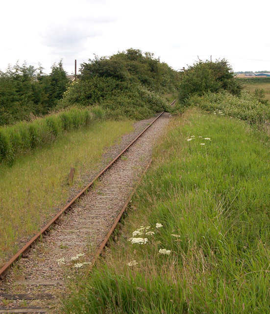 Overgrown railway south of Wisbech